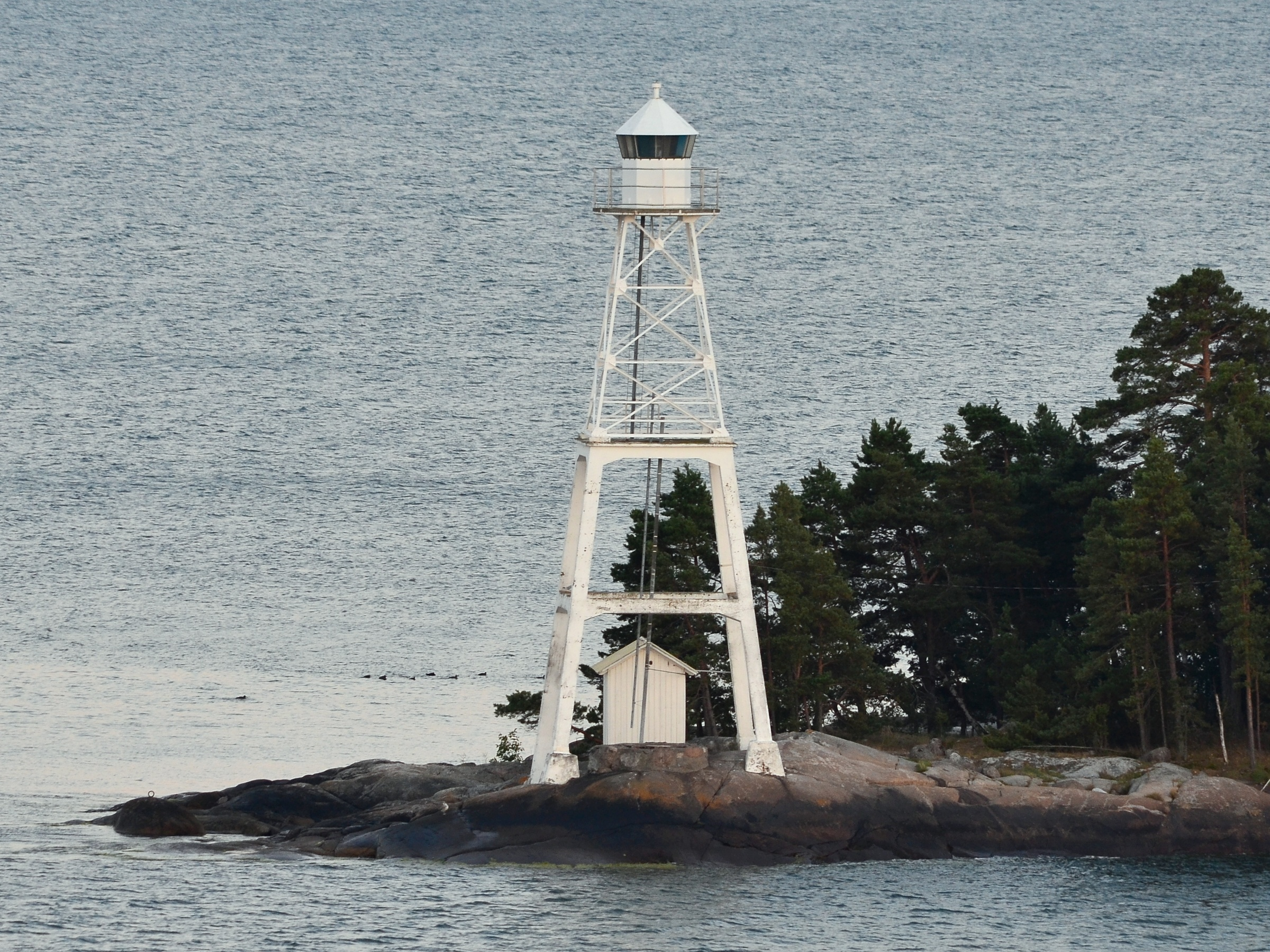 The lighthouse Orisgrund/Orhisaari north of Själö, Nagu, Finland.